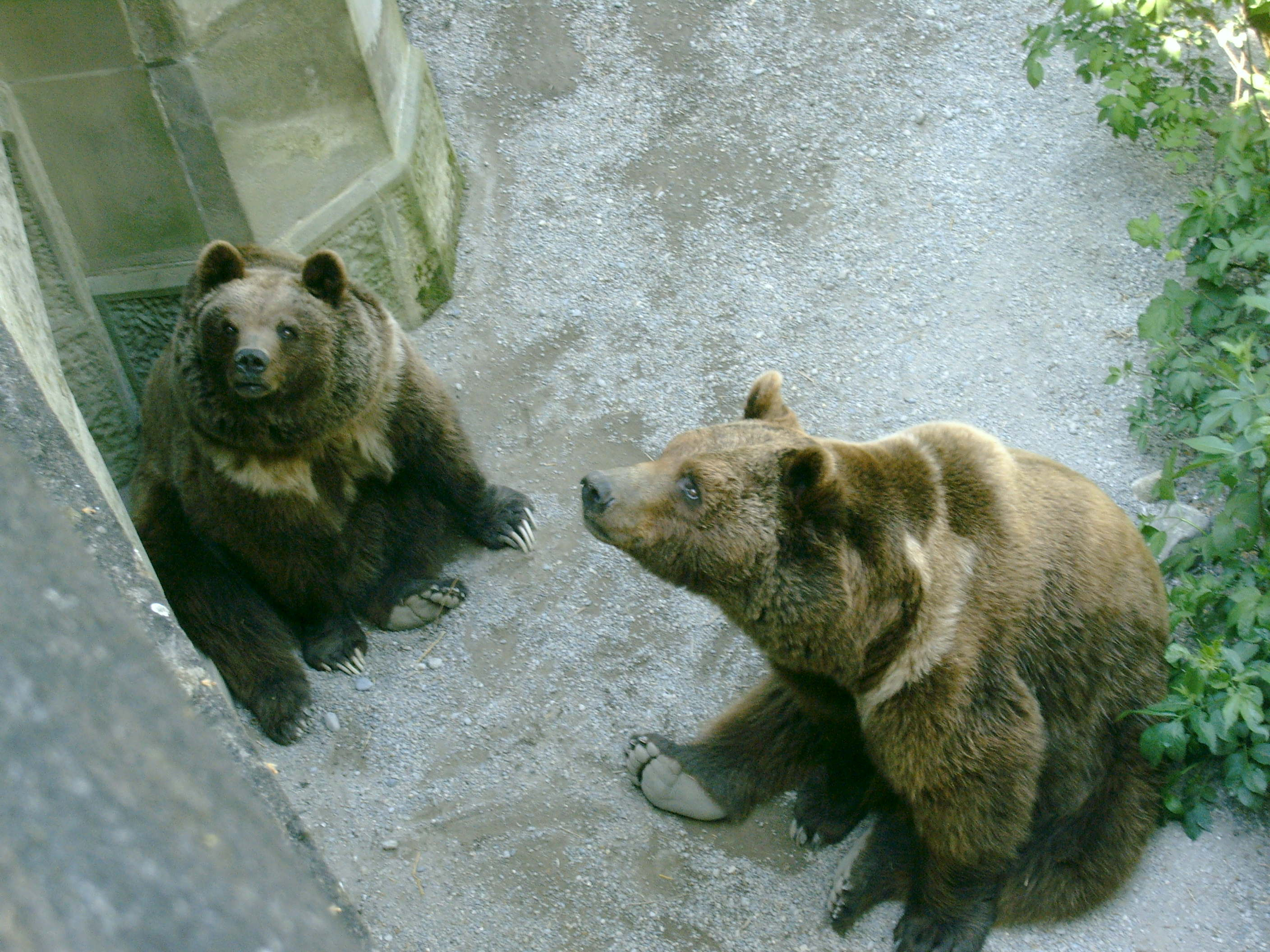 It's a photo of the bears of Berna.